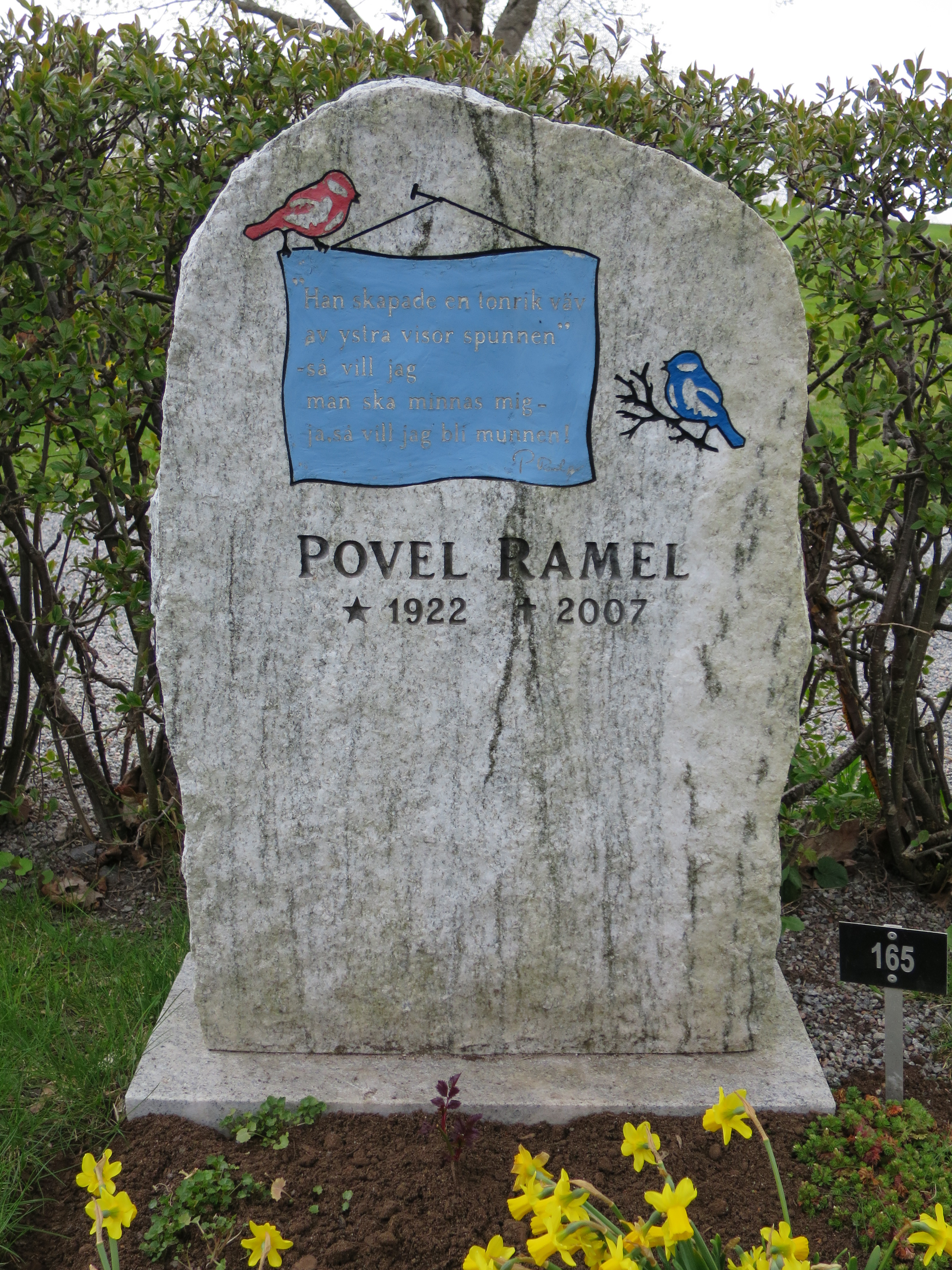 Povel Ramel's grave in Lidingö